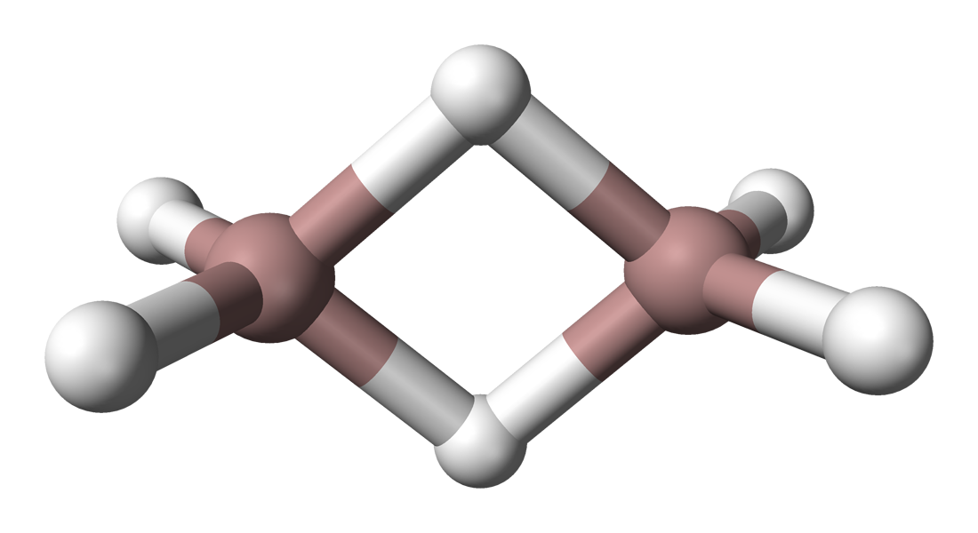 Ball-and-stick model of the digallane molecule, Ga2H6